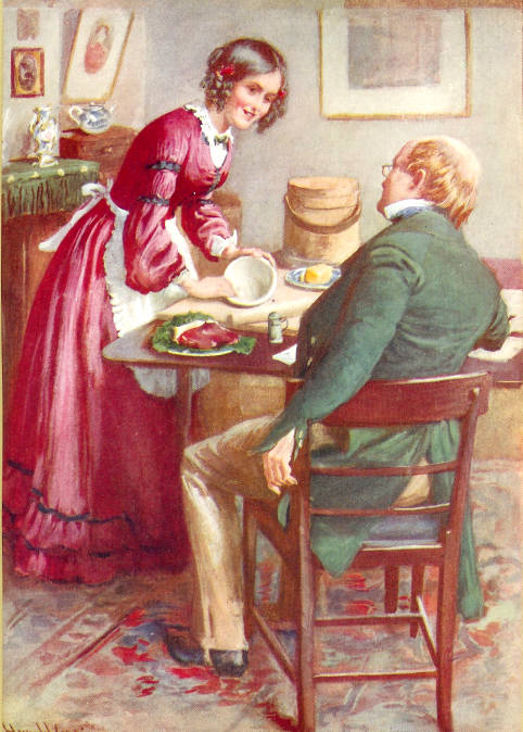 Martin Chuzzlewit by Ch. Dickens - Ruth Pinch making a pudding for her brother. Illustration by Harold Copping is taken from: Character Sketches from Dickens (1924). Scanned by Philip V. Allingham.